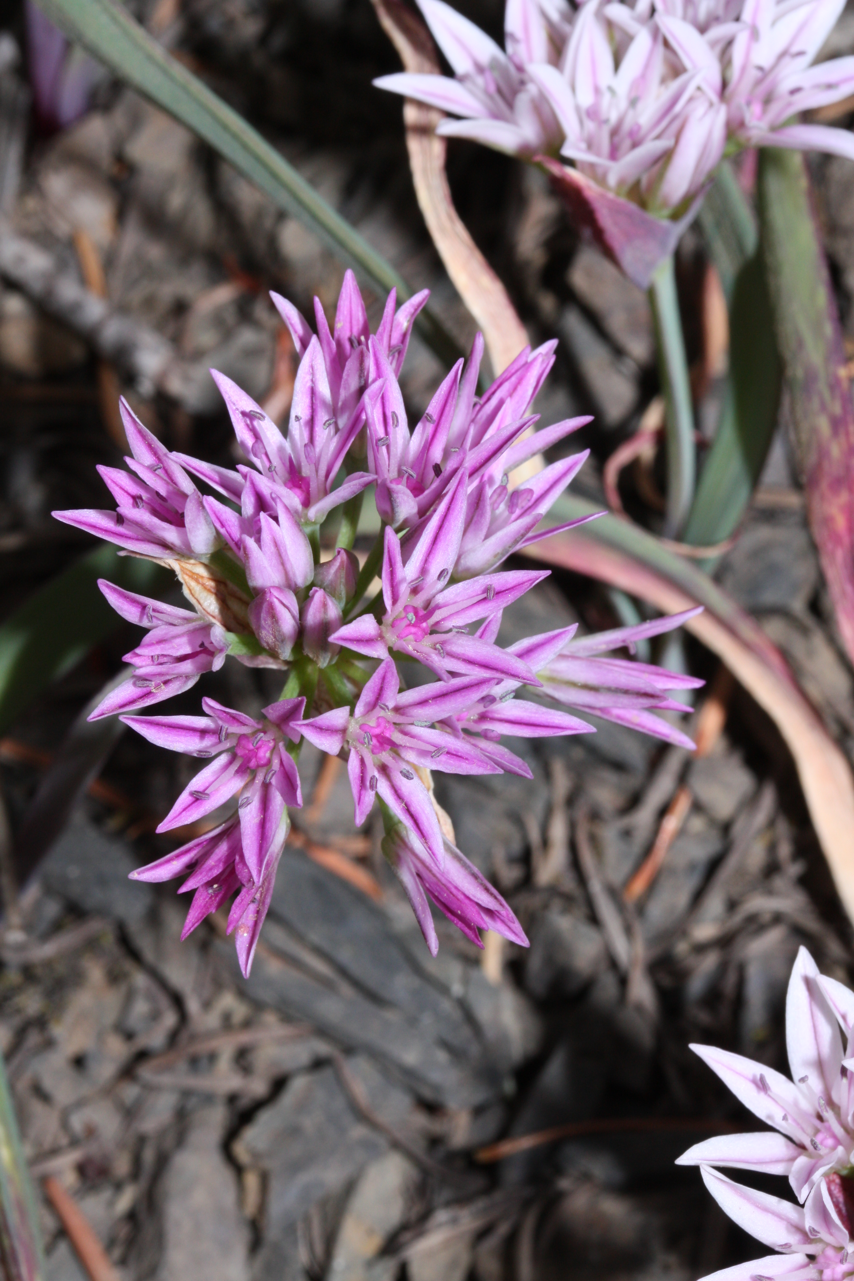 Olympic Onion, Scalloped Onion